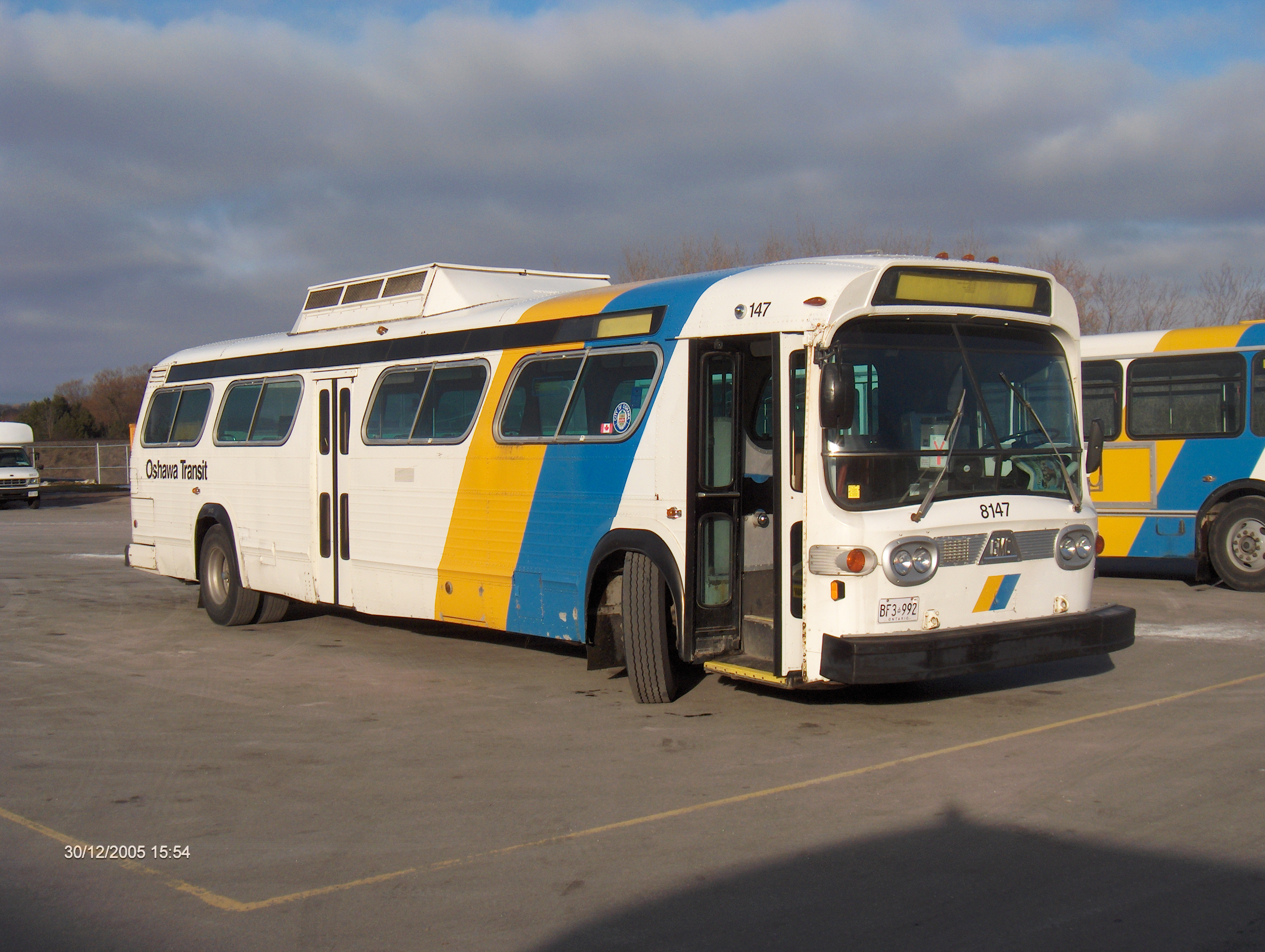 Days before becoming a Durham Region Transit bus, Oshawa Transit bus 147 (already renumbered to 8147) is resting at the back of the Oshawa Transit garage at 710 Raleigh Avenue. Buses with a step light over the door did not get the full four number DRT designation above the front doors due to the step light. The previous number remained intact instead of moving all of the numbers over to make room for the "8".